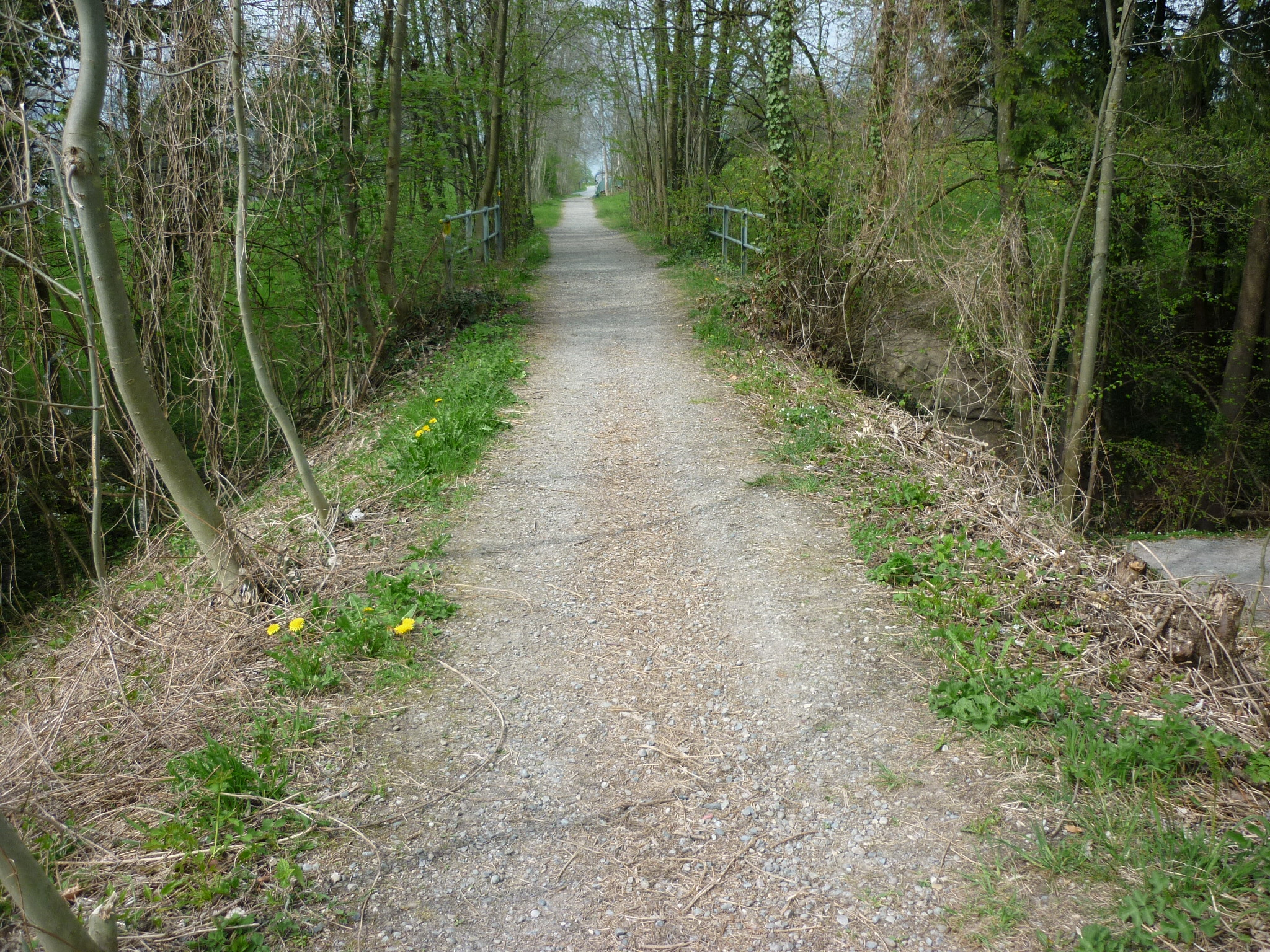 Old railway stretch, Wetzikon-Meilen Railway, Stäfa ZH, Switzerland